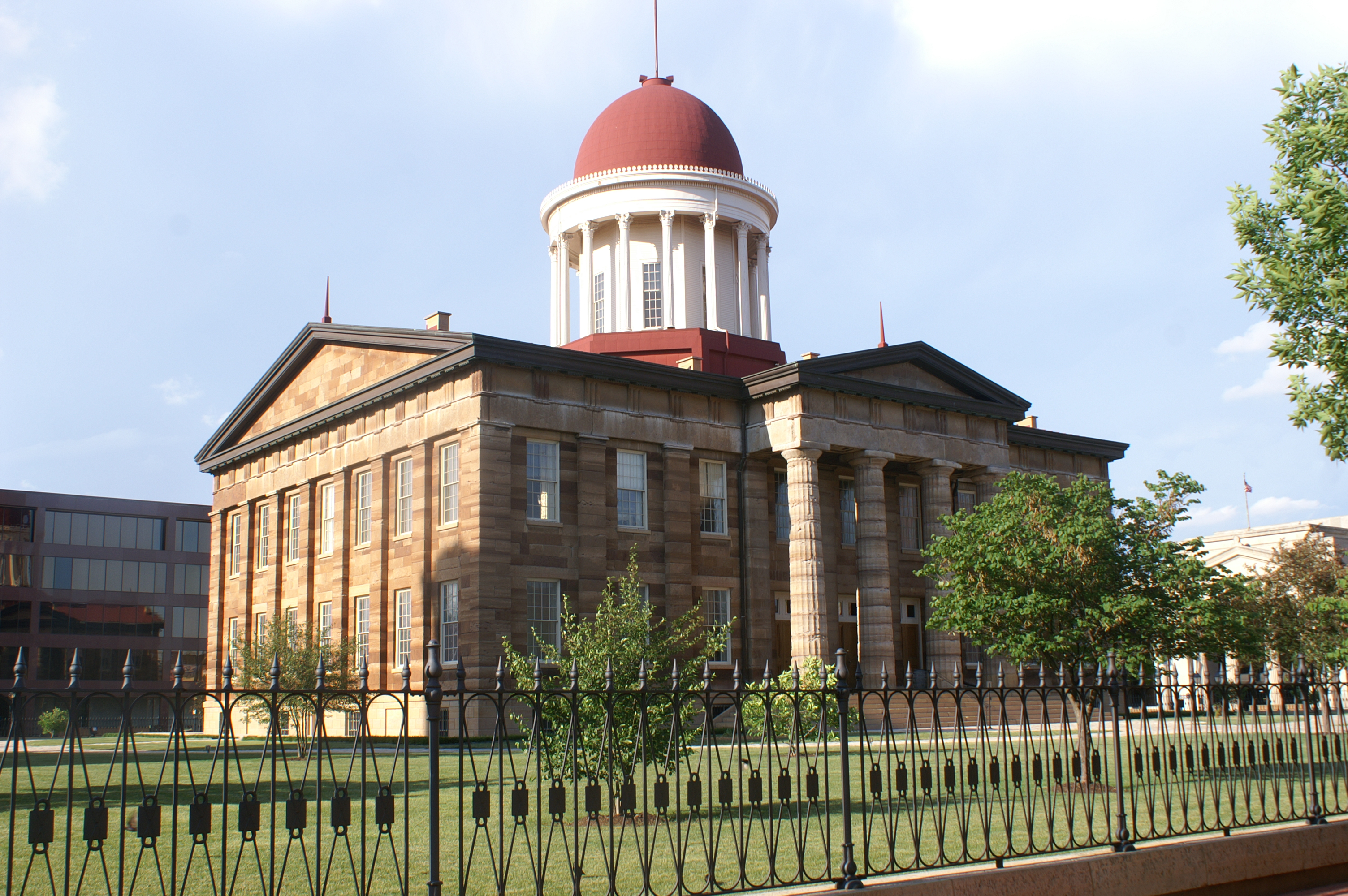 View of Old State Capitol, Springfield, Illinois